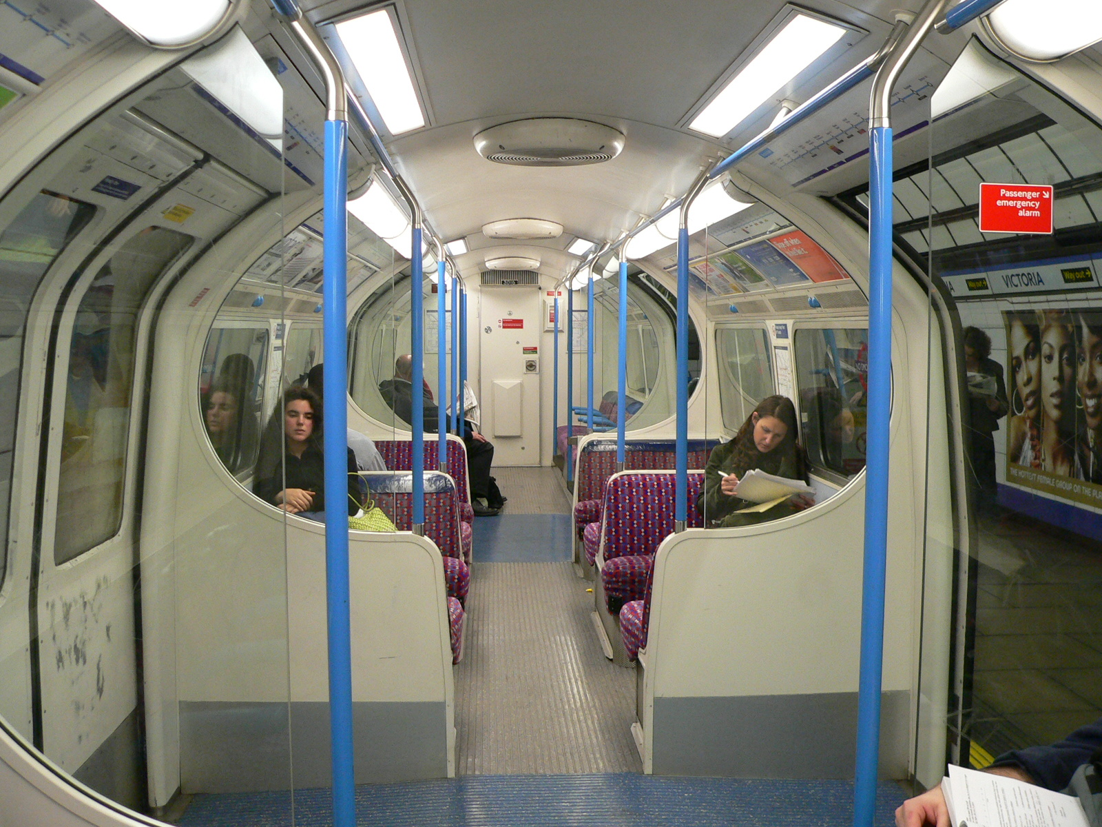 The interior of a London Underground 1967 tube stock Victoria Line train at Victoria station on 24 October 2005.